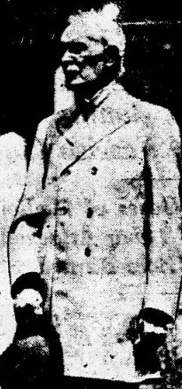 Lot Flannery (1836-1922), an Irish-American sculptor from Washington, D.C., best known for his work on the Abraham Lincoln statue. This photo was in his obituary in The Evening Star.